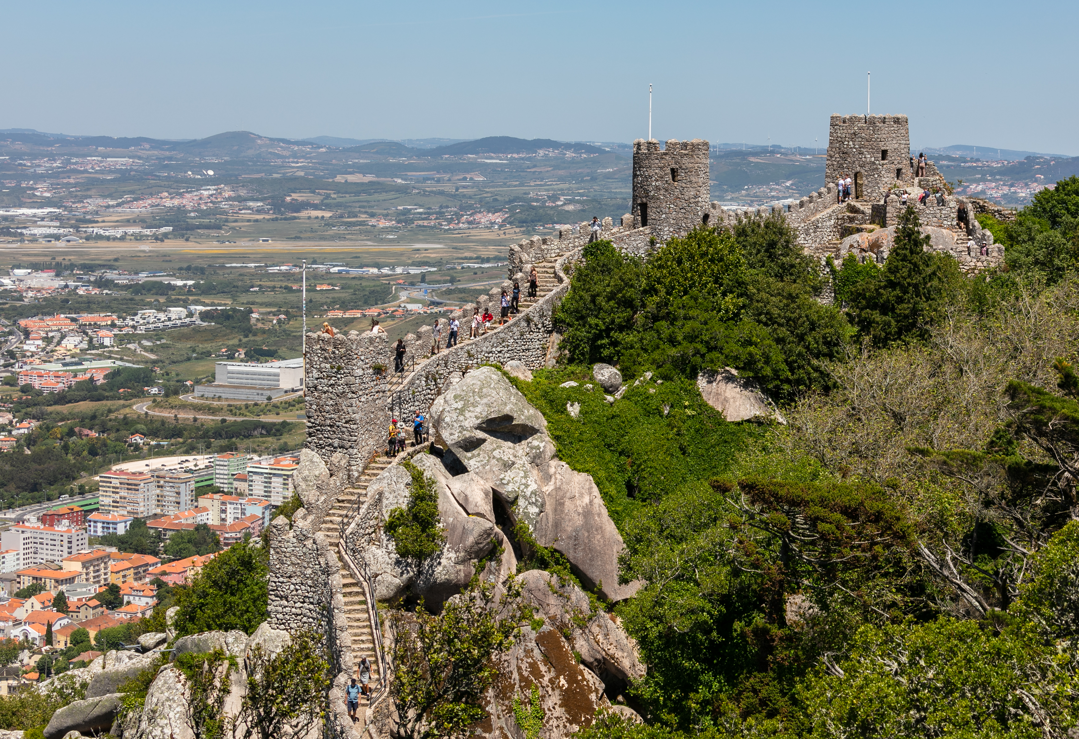 Castelo dos Mouros, Sintra, Portugal